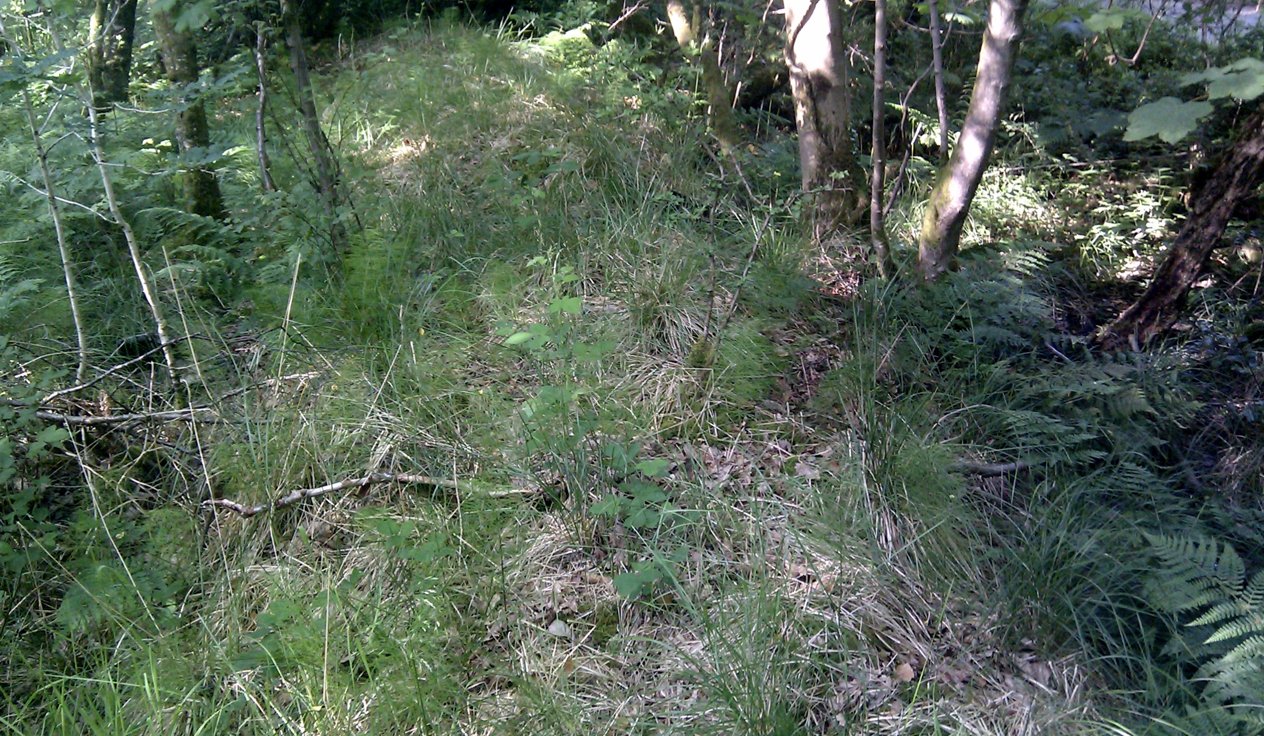 Bank and ditches at the old roundel within Sevenacres Wood, Kilwinning, North Ayrshire, Scotland.